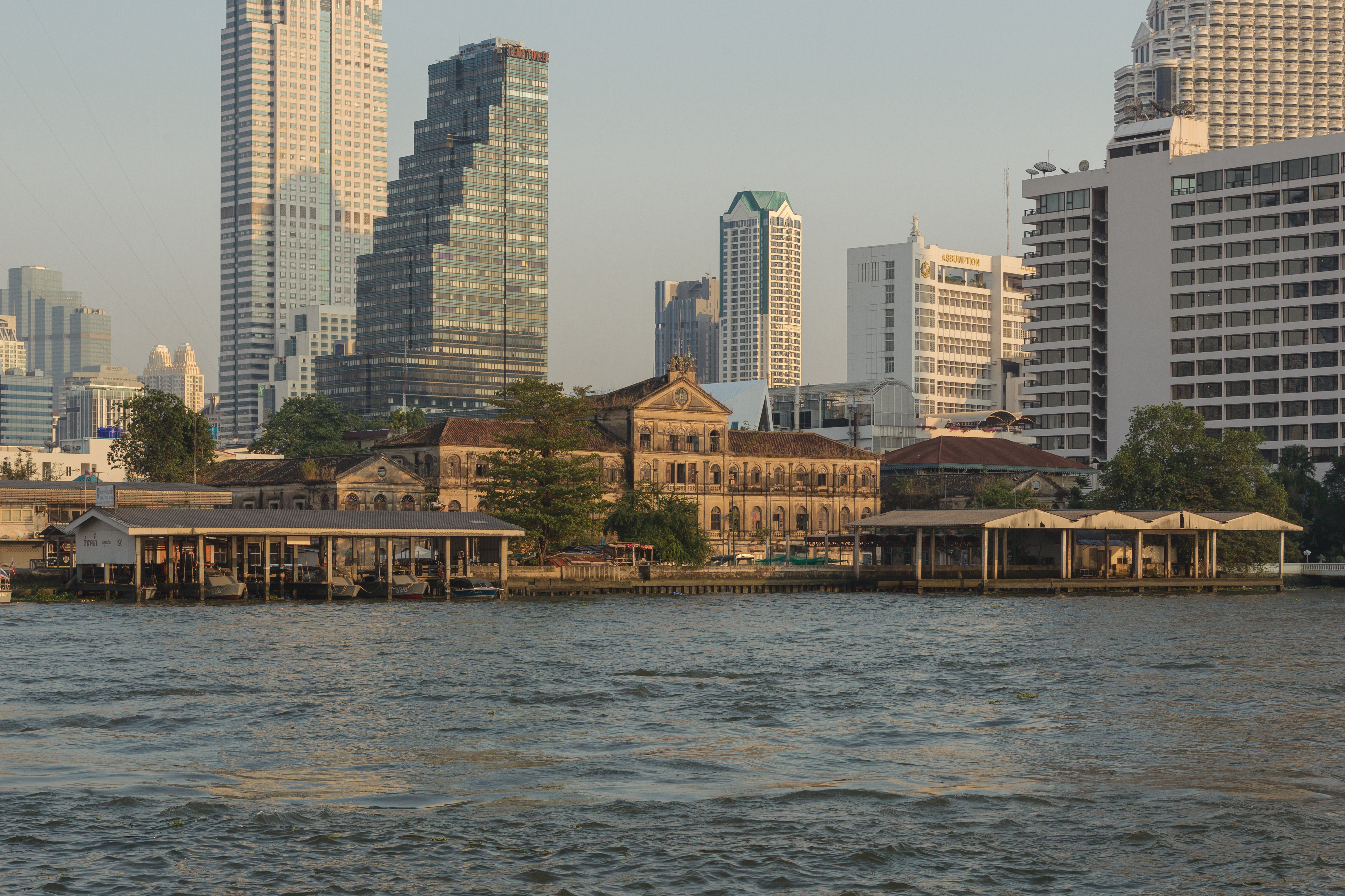 The Old Customs House (also: BangRak Fire Station), Bangrak District, Bangkok.